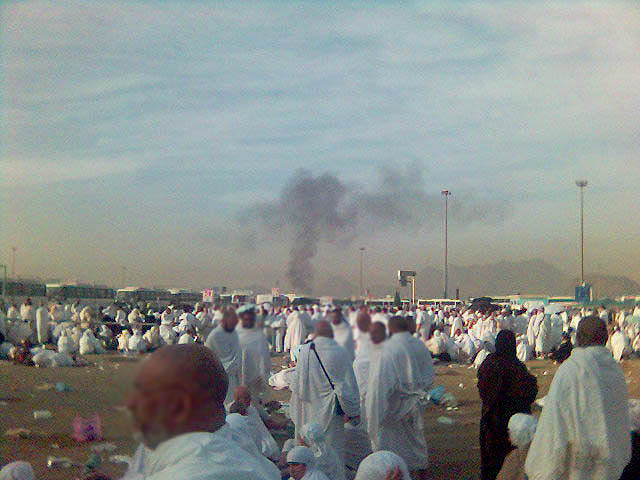 Pilgrims in Muzdalifa, 2006